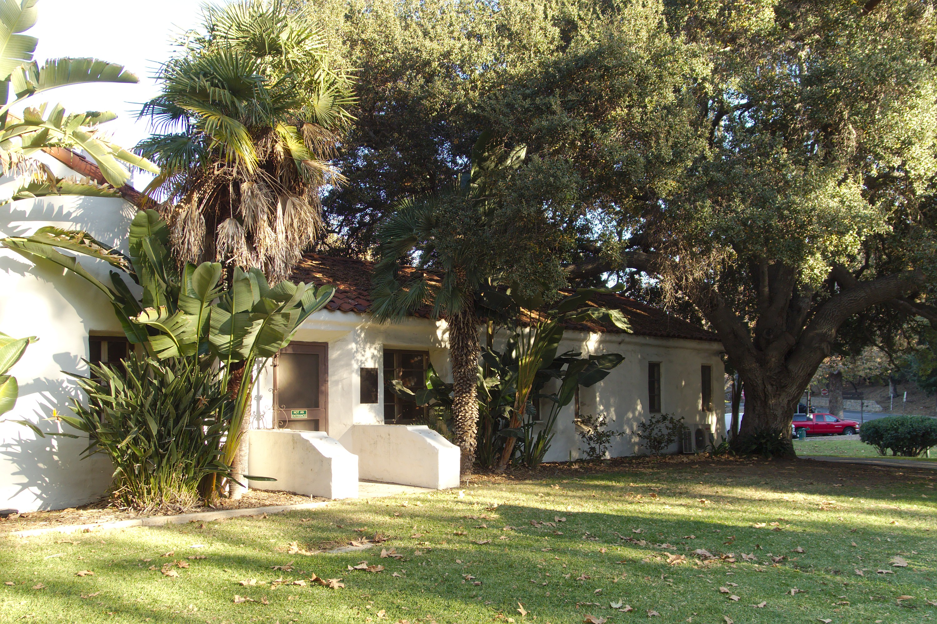 The Feliz Adobe at the Griffith Park visitor's center, LAHCM 401, viewed from the northwest.